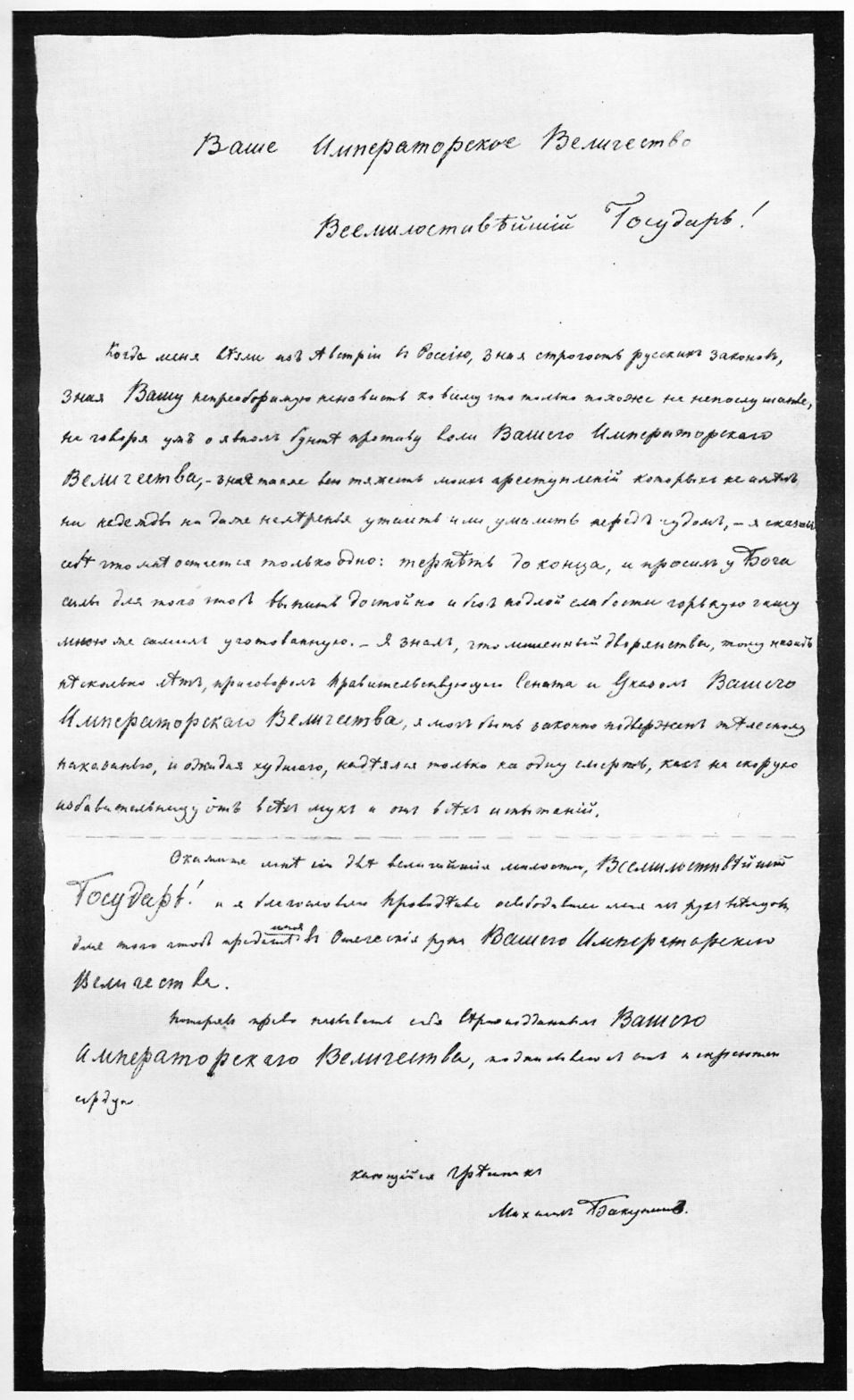 First and last page of a Faksimile of Bakunins Confession to the Tsar.